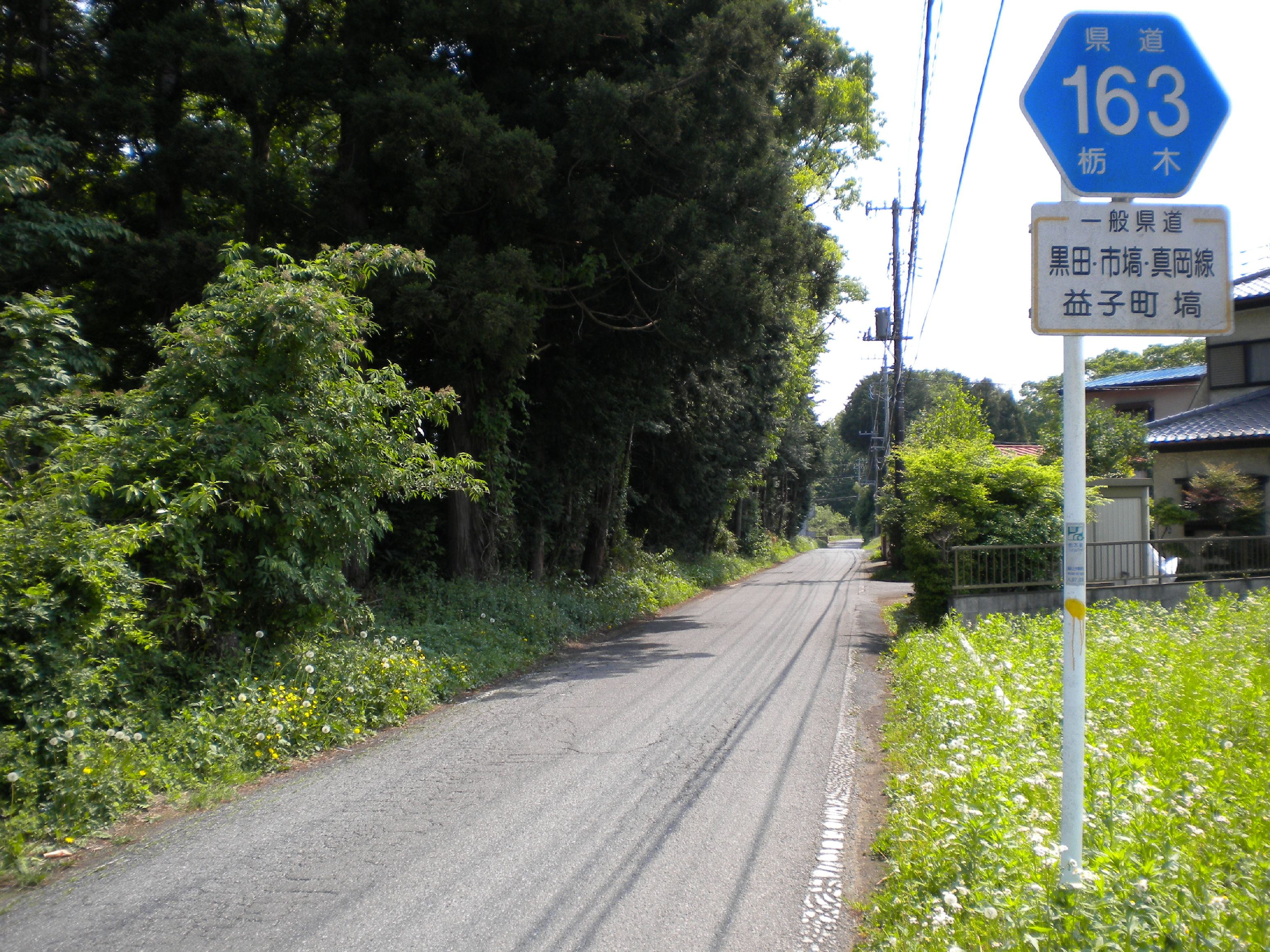 The Tochigi Prefectural Road Route 163 in Hanawa, Mashiko Town